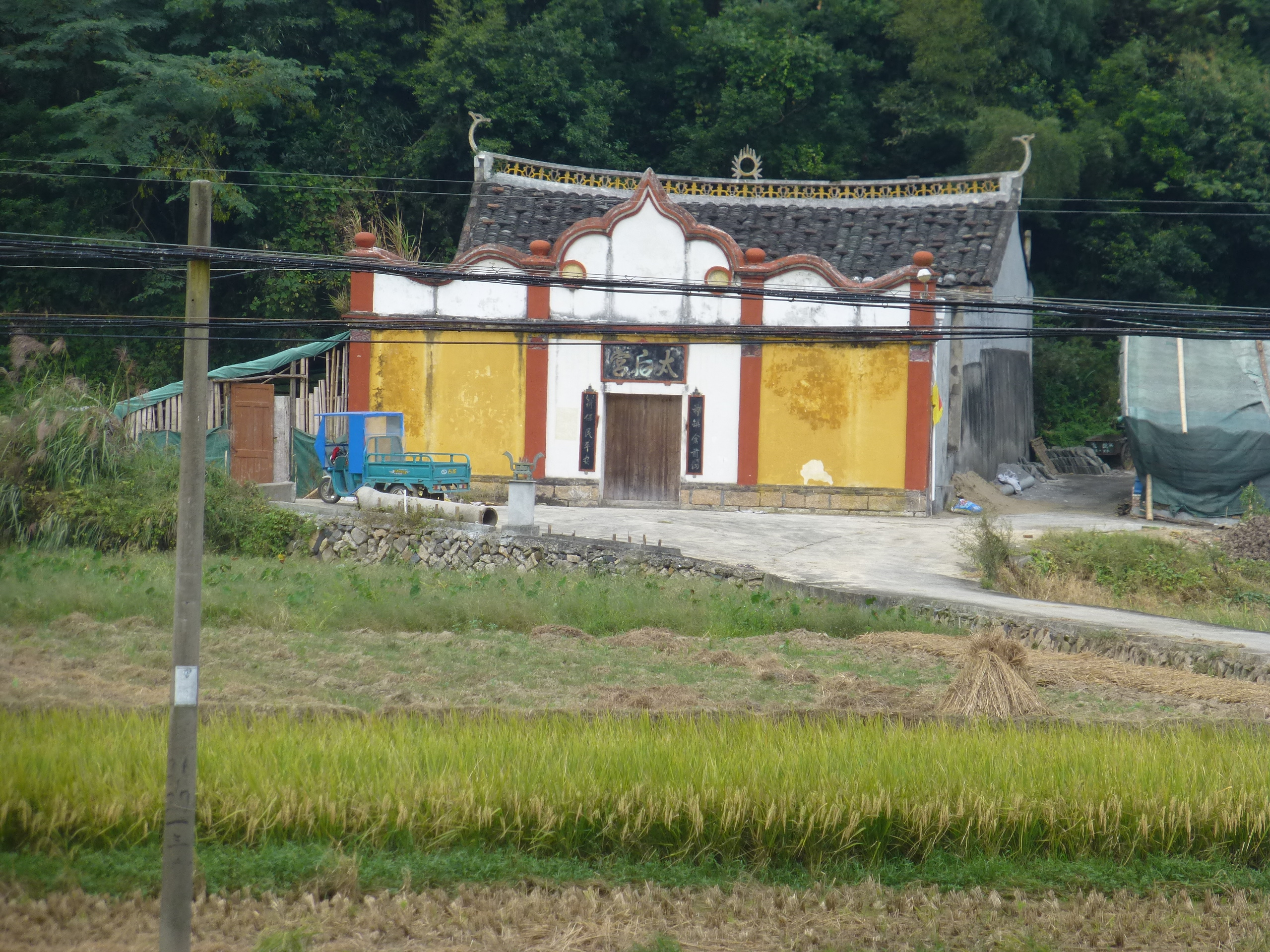 A small temple called Tai Hou Gong (太后宫) near X974, the road from Long'an Development Zone to Taimushan Railway Station, via Dianxia Town, in Fuding, Fujian.